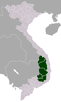 Locator map of the Tay Nguyen (Central Highlands) Region of Vietnam.